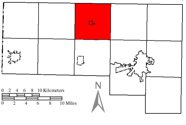 Made by the US Census and modified by myself